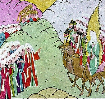 Muhammad, Abu Bakr, and other supporters of the Prophet arriving in Madinah after leaving Makkah